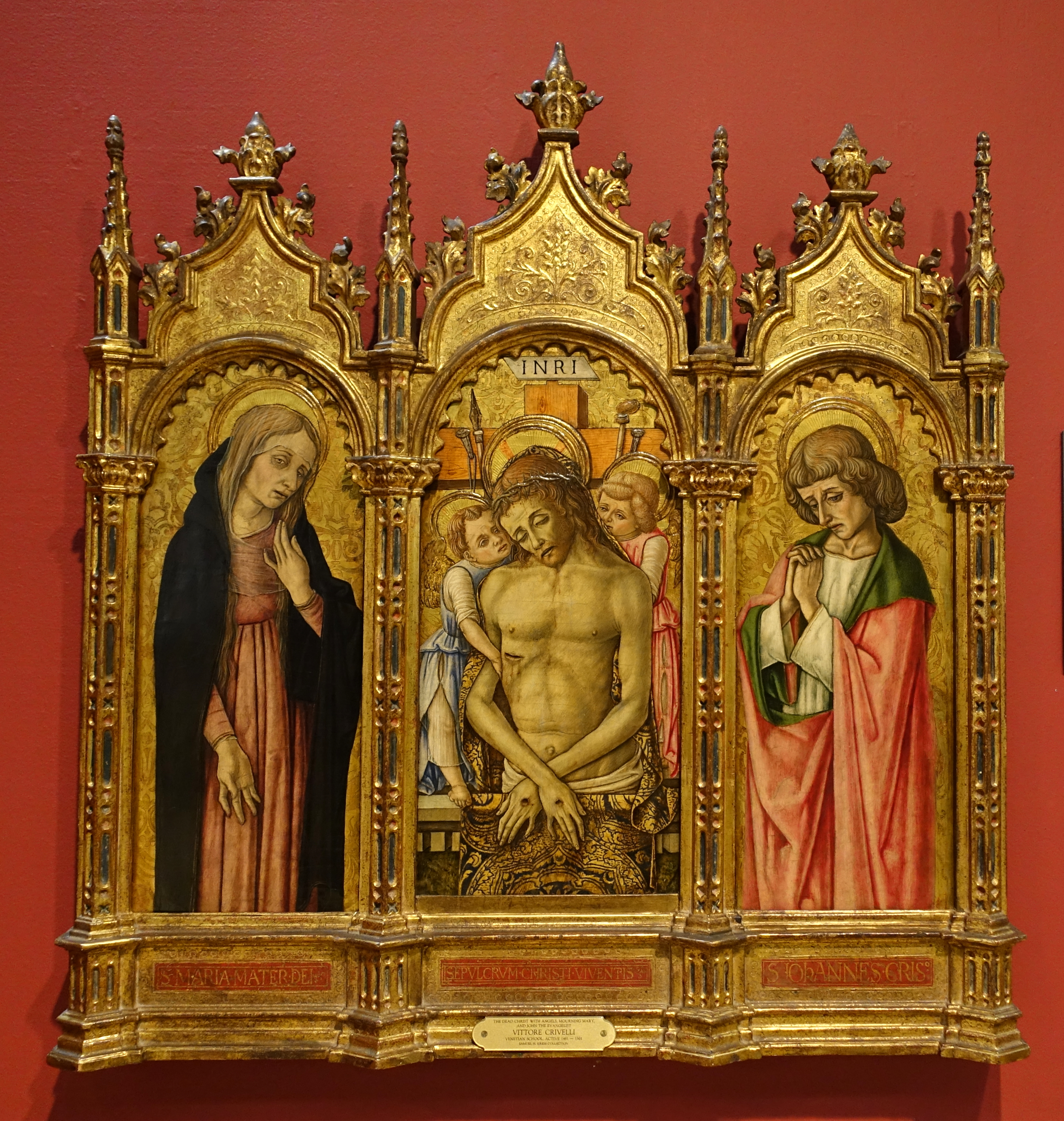 Exhibit in the University of Arizona Museum of Art - University of Arizona - Tucson, Arizona, USA.